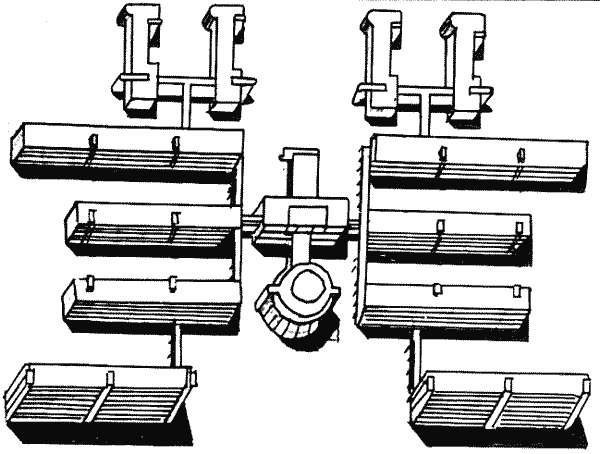 Perspective view of KhTZ zhilkombinat